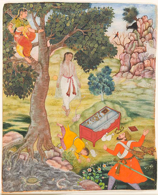 Pakistan, Lahore, Mughal Tale of the Cunning Siddhikari, From a Kathasaritsagara, circa 1590 Painting; Watercolor, Opaque watercolor, gold, and ink on paper, 6 1/2 x 5 1/4 in. (16.51 x 12.7 cm) From the Nasli and Alice Heeramaneck Collection, Museum Associates Purchase (M.78.9.12) South and Southeast Asian Art Department. Not currently on public view Click here for a list of artworks on display in this curatorial collection